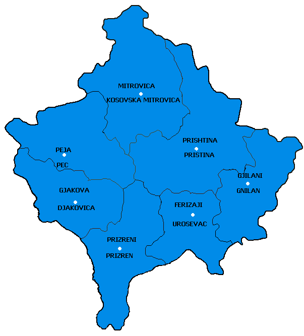 Cities and districts (by UNMIK) in Kosovo From Image:Citys of Kosova.PNG (by User:Hipi_Zhdripi)